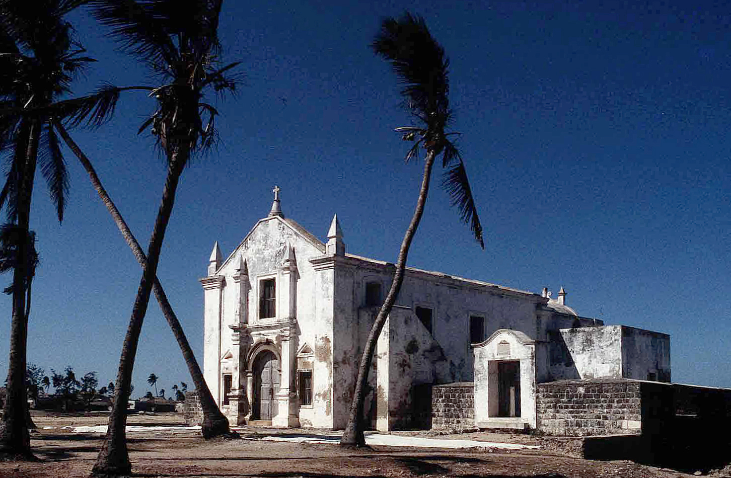 Santo António Church or Chapel. Ilha de Mozambique was first occupied by Portuguese explorers in the late 1400s. They quickly estblished a fort there, and with time quite a community sprang up, including a church, mosque, shops, and residences. This church is one of the architectural remains there. The island, a UNESCO World Heritage Site, is off the eastern coast of Africa and is part of the country of Mozambique.Mozambique n2